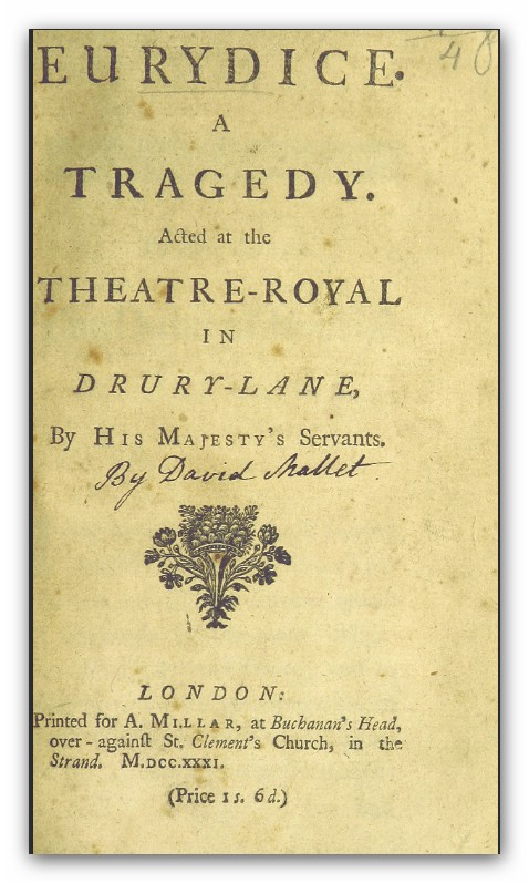 Page 3 of Eurydice; a tragedy in five acts and in verse.